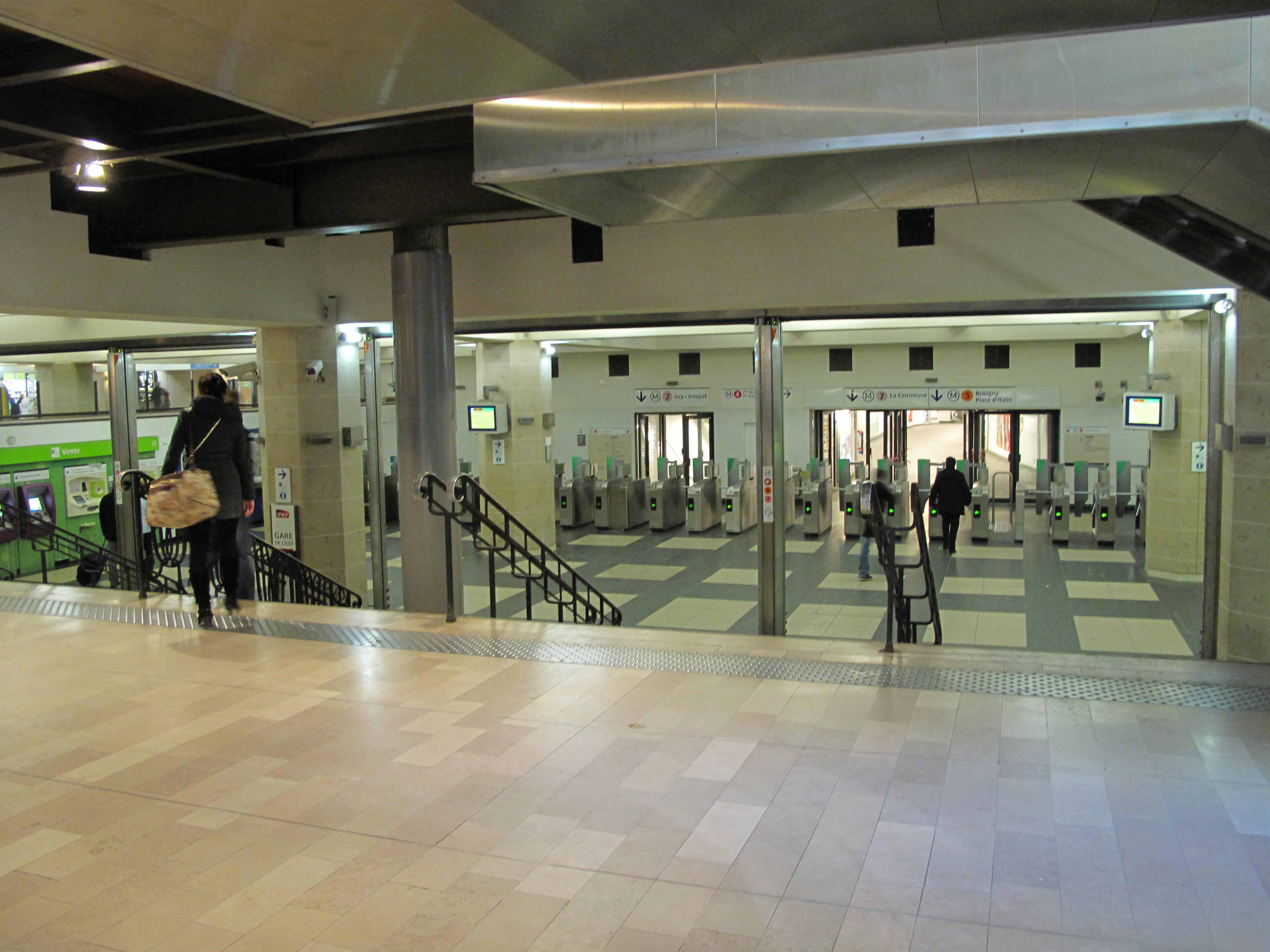 Main entrance of the metro station in gare de l'Est, Paris